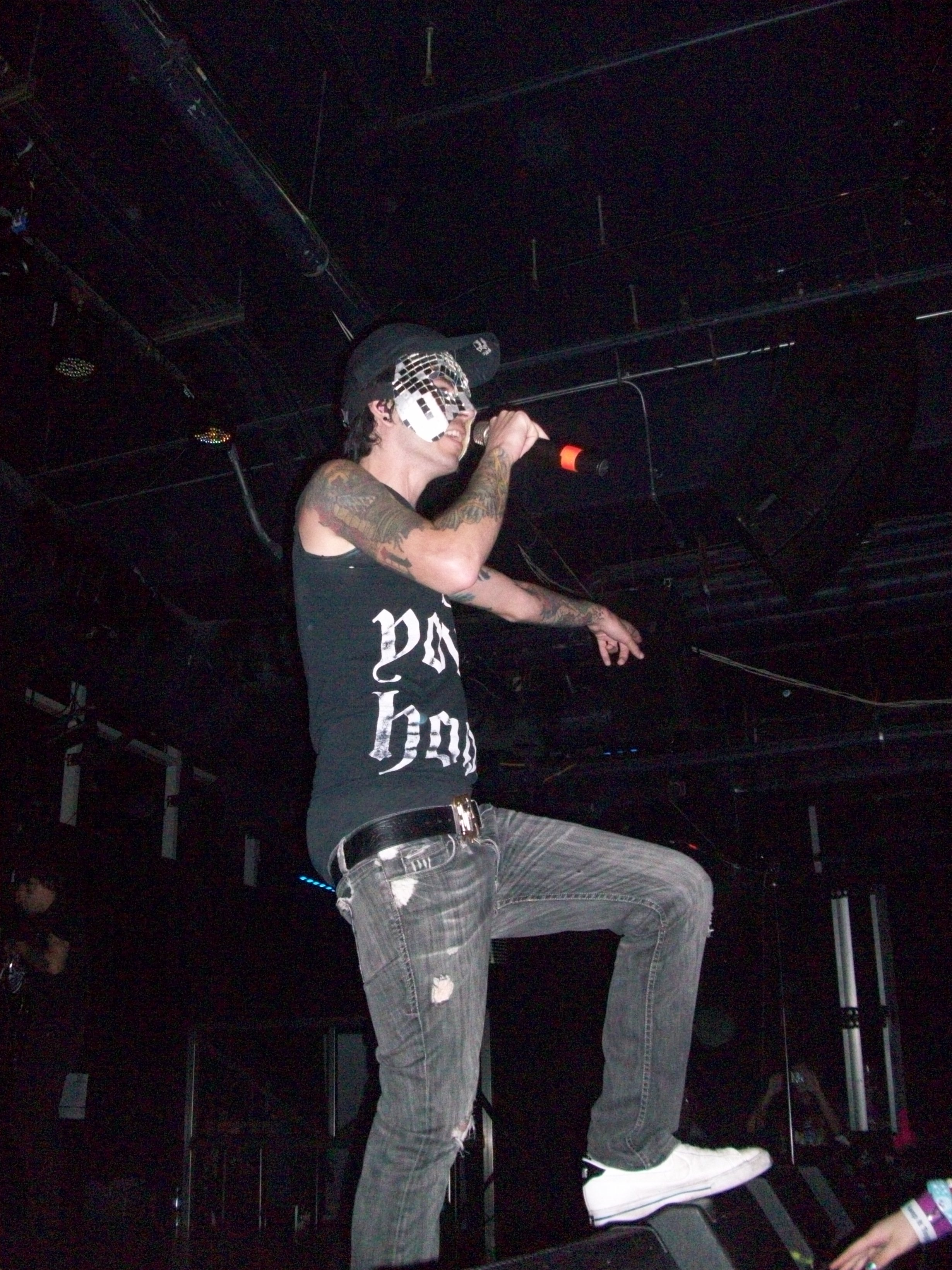 Photograph of American singer/rapper; Deuce live in performance, wearing his signature mirror-ball mask.